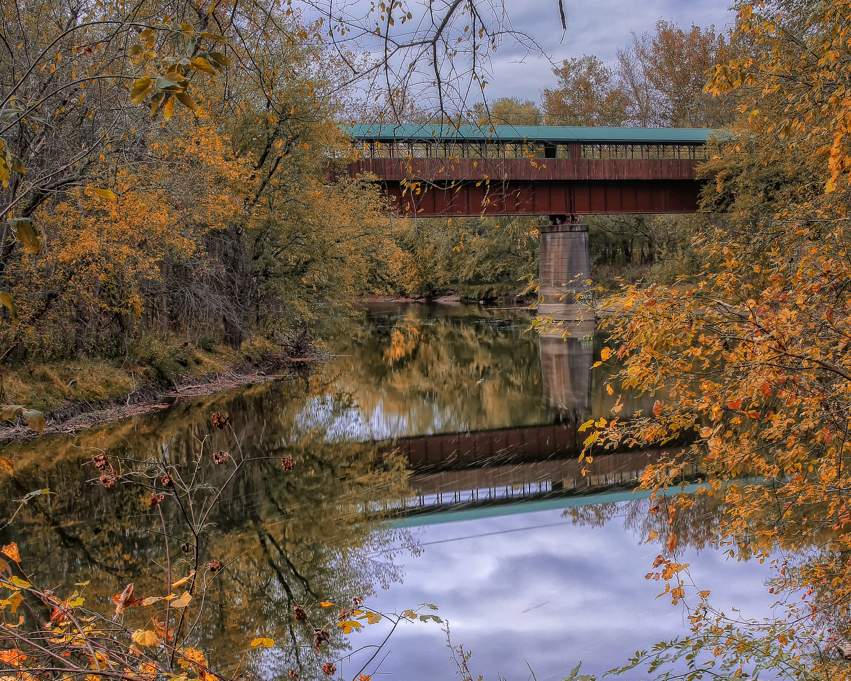 Looking southeast from the U.S. Route 62 bridge toward the Bridge of Dreams, which spans the Mohican River just south of Gann in Union Township, Knox County, Ohio, United States.